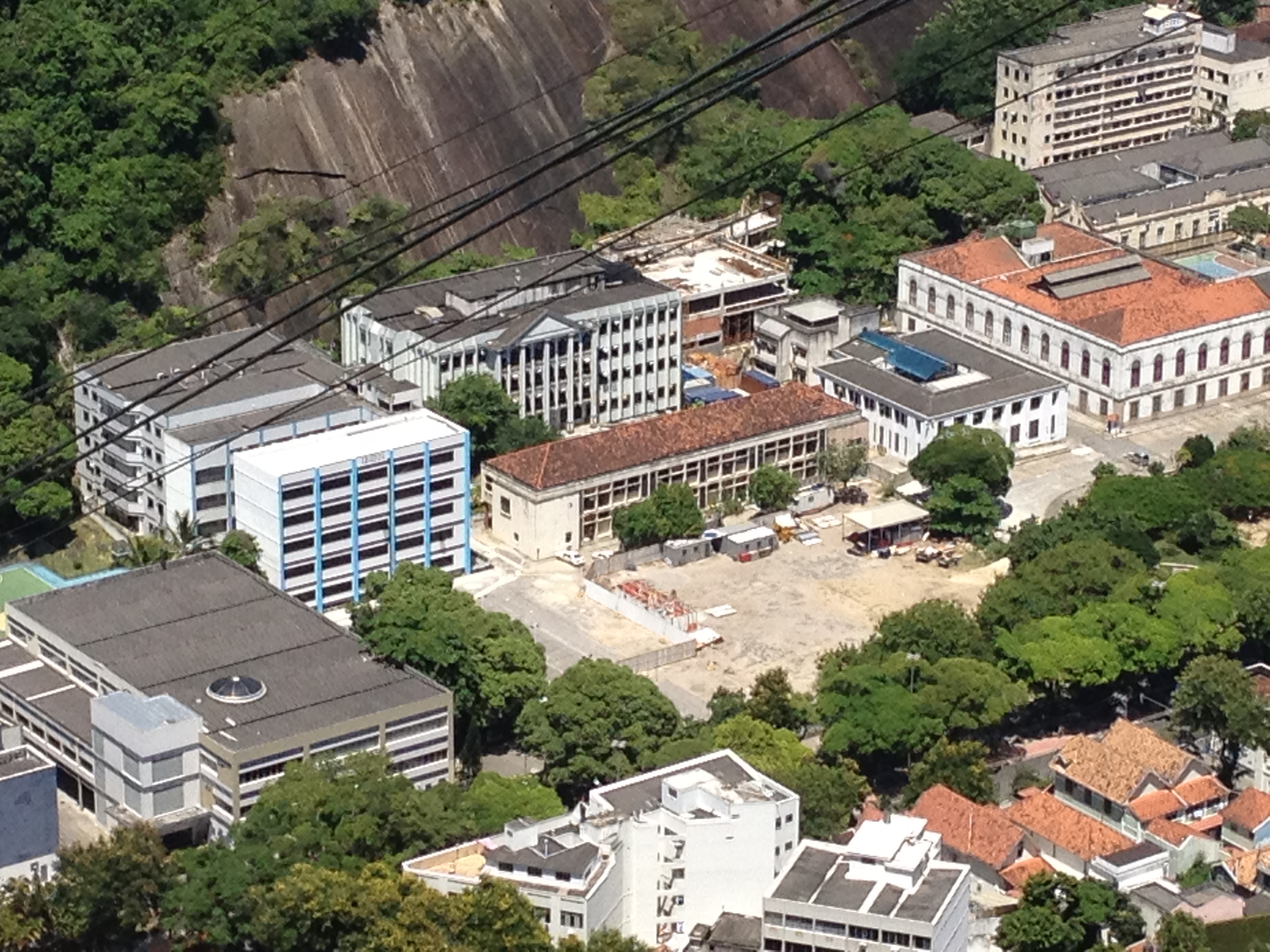 View of Federal University of Rio de Janeiro State, campus Urca, from Morro da Urca.